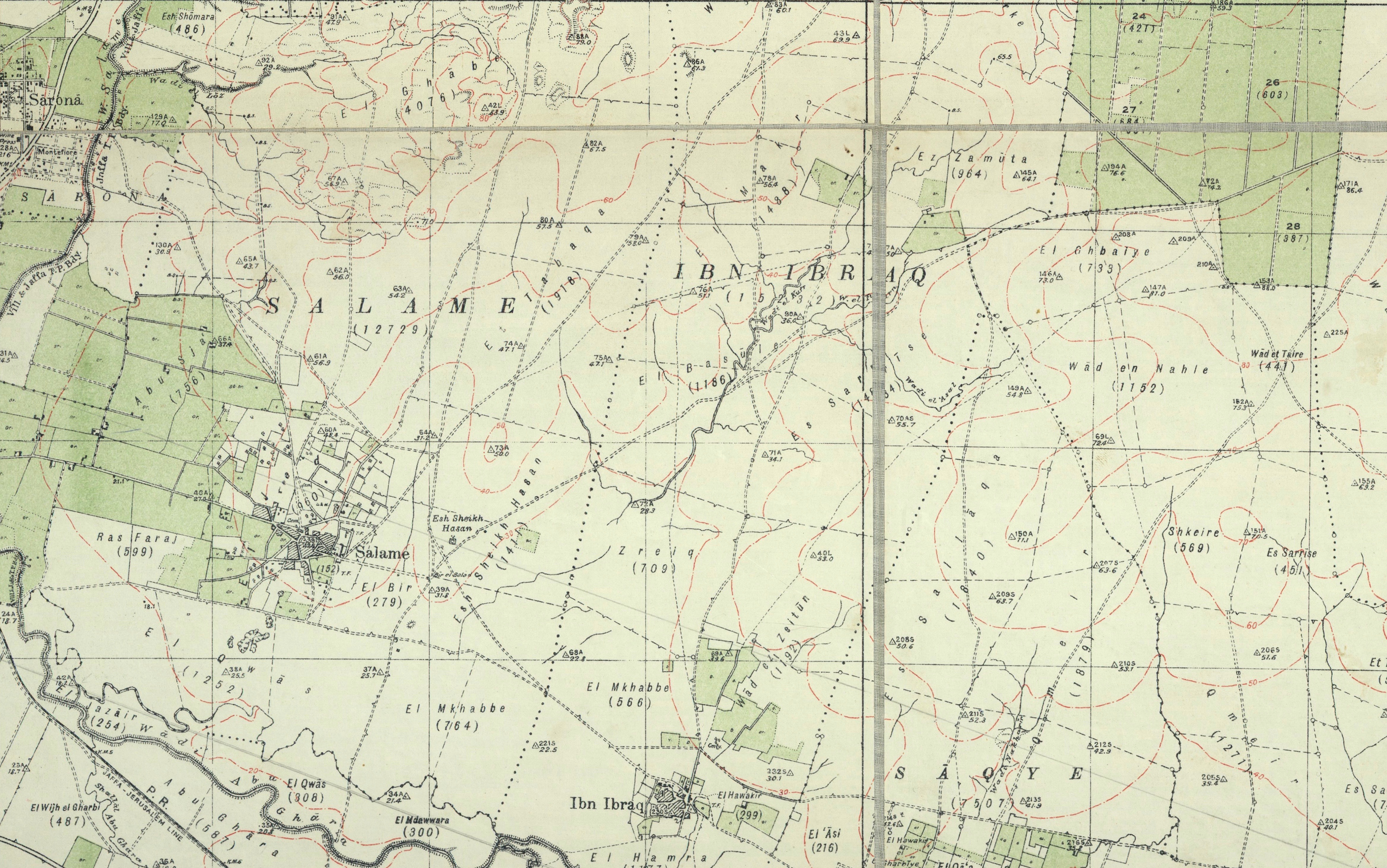 Salama from 1928 map. 1:20,000